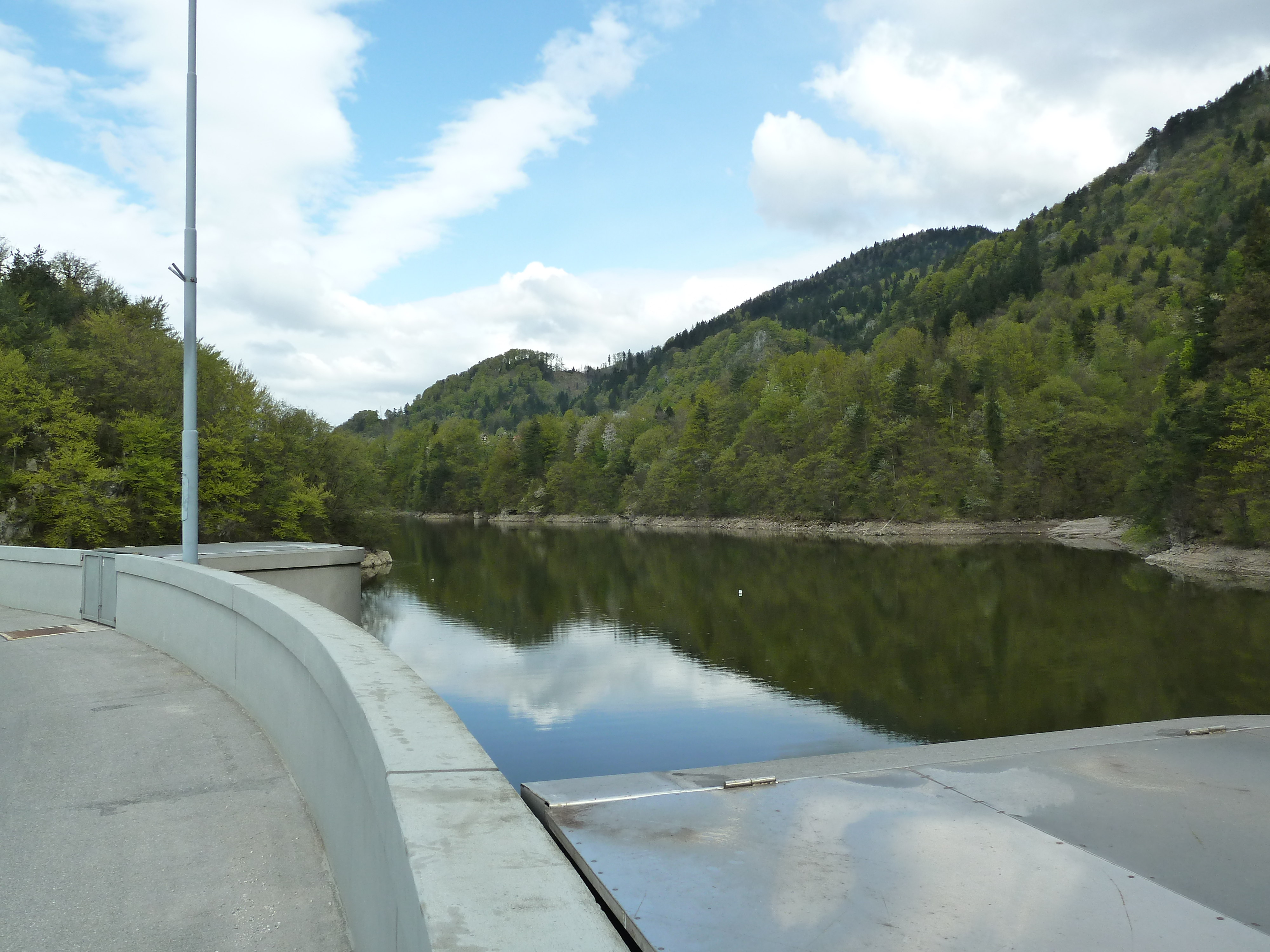 Artificial lake of Sava Dolinka behind the Moste powerplant dam